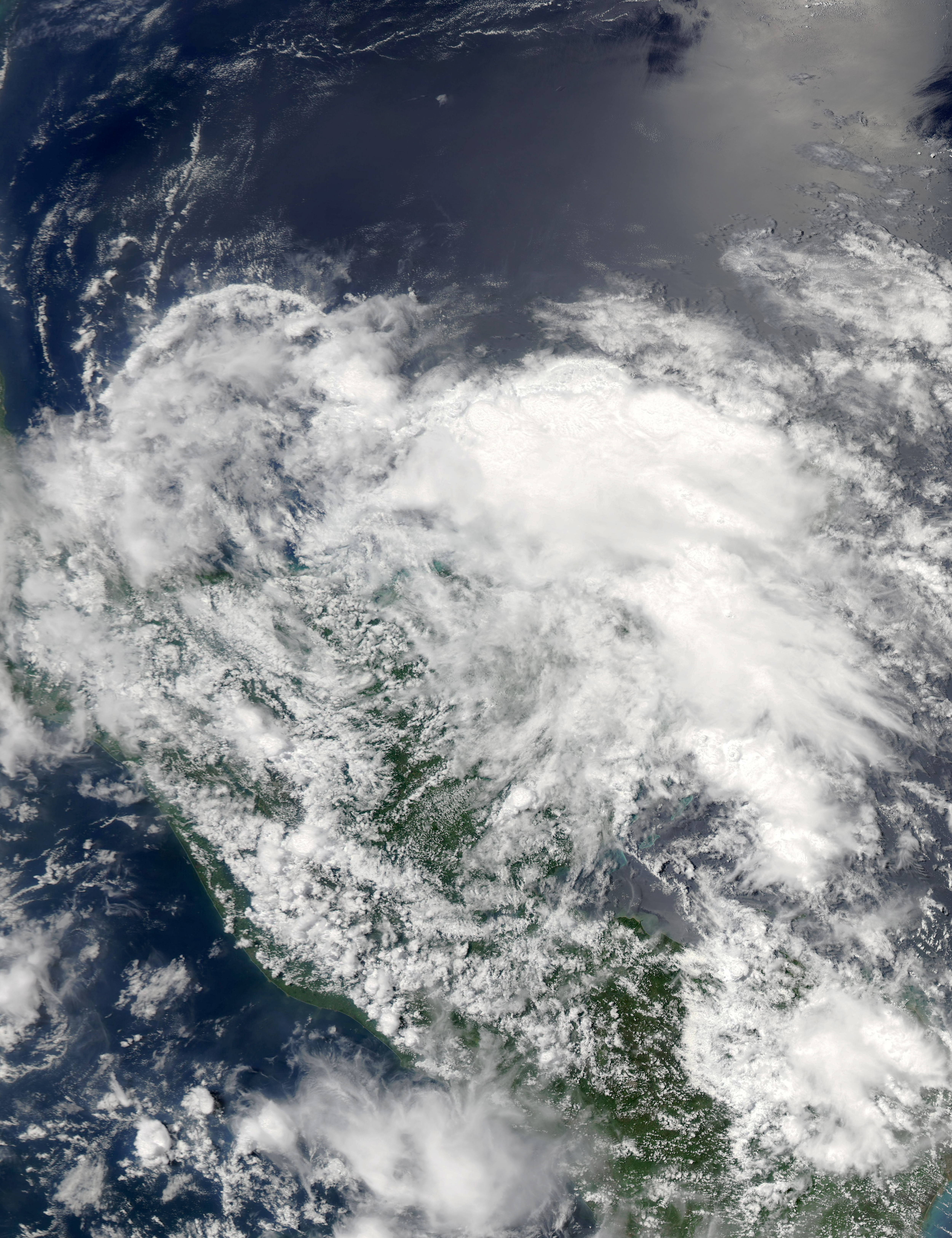 Tropical Depression Two over the Yucatan peninsula.